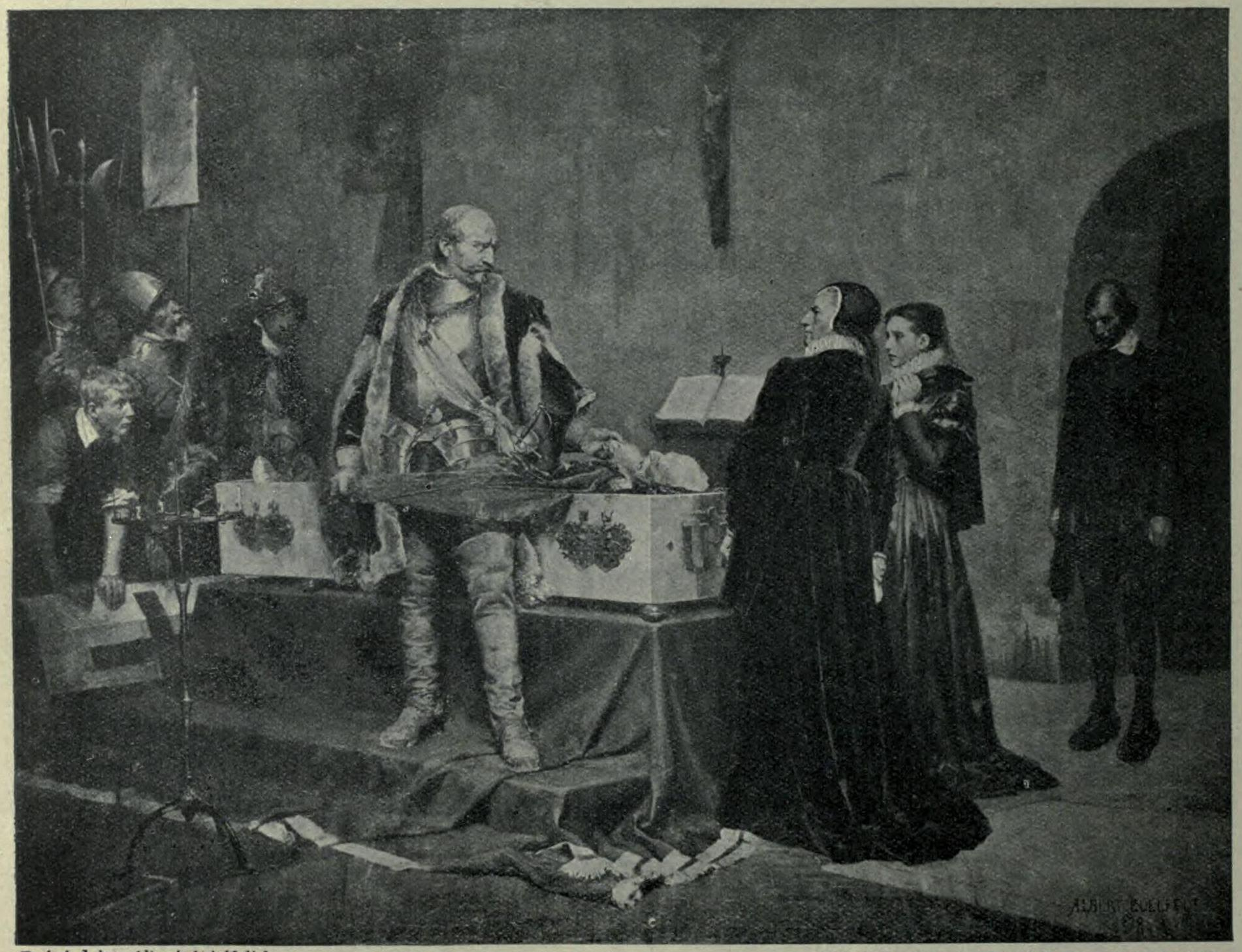 Hutchinson's story of the nations, containing the Egyptians, the Chinese, India, the Babylonian nation, the Hittites, the Assyrians, the Phoenicians and the Carthaginians, the Phrygians, the Lydians, and other nations of Asia Minor Published [n.d.] Topics Asia -- History SHOW MORE 26 Publisher London, Hutchinson Pages 410 Possible copyright status NOT_IN_COPYRIGHT Language English Call number AER-3187 Digitizing sponsor MSN Book contributor Robarts - University of Toronto Collection robarts; toronto Full catalog record MARCXML [Open Library icon]This book has an editable web page on Open Library.